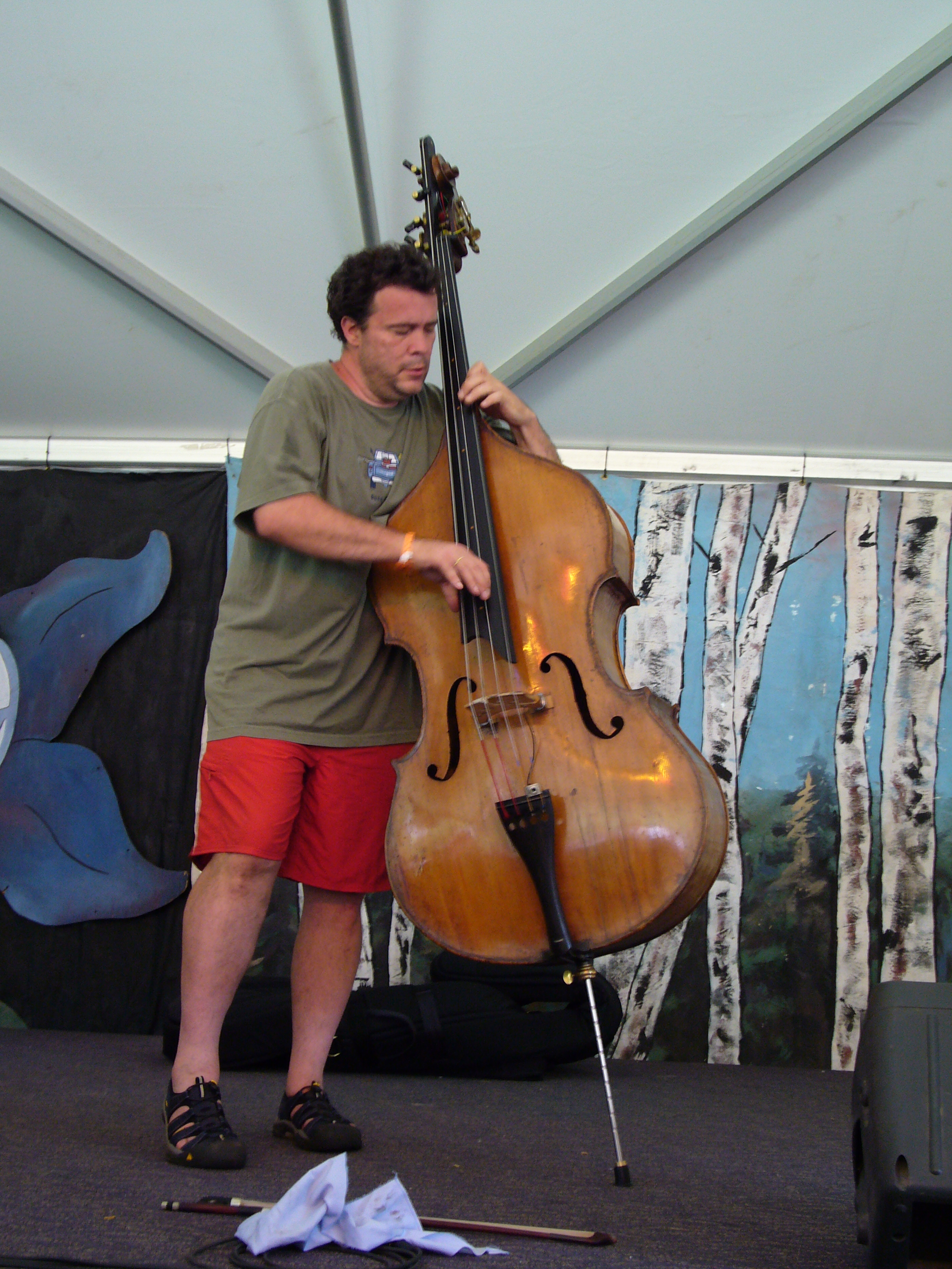 Edgar Meyer performing at the 2006 RockyGrass Music Festival in Colorado, July 26, 2006